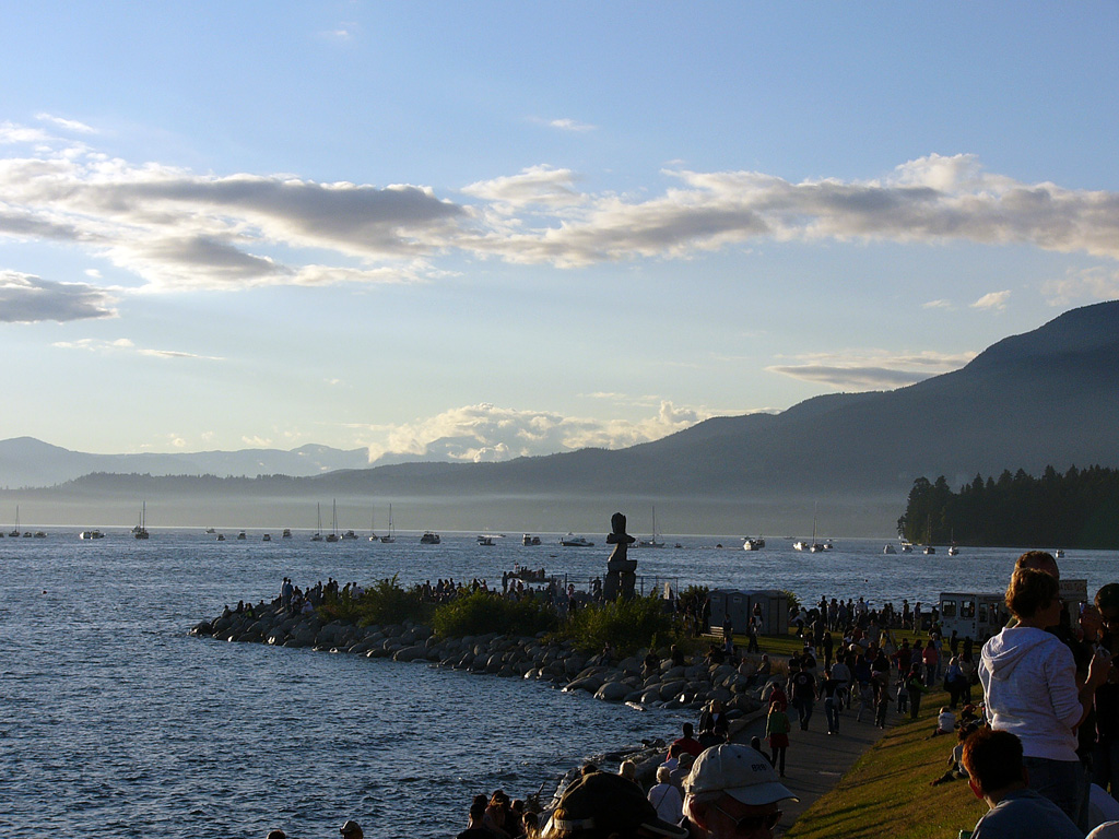 English_Bay